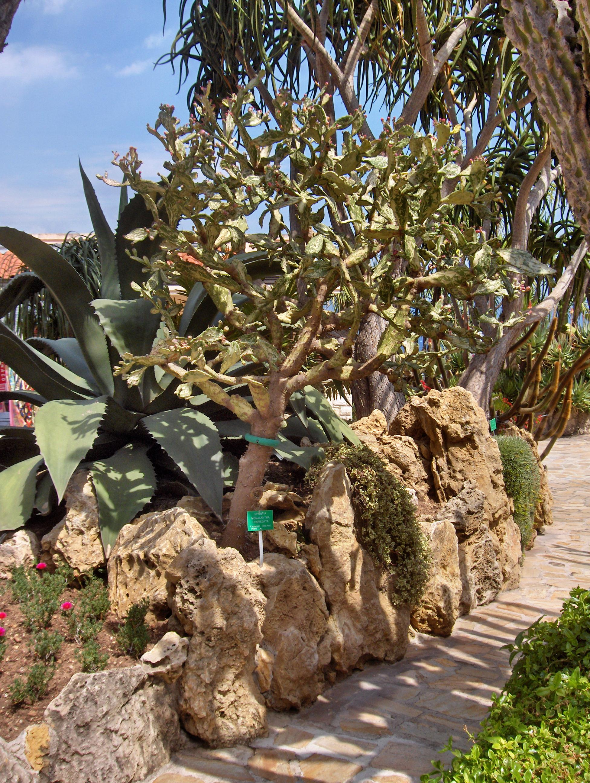 Opuntia monacantha f. variegata; Exotic Garden; Monaco